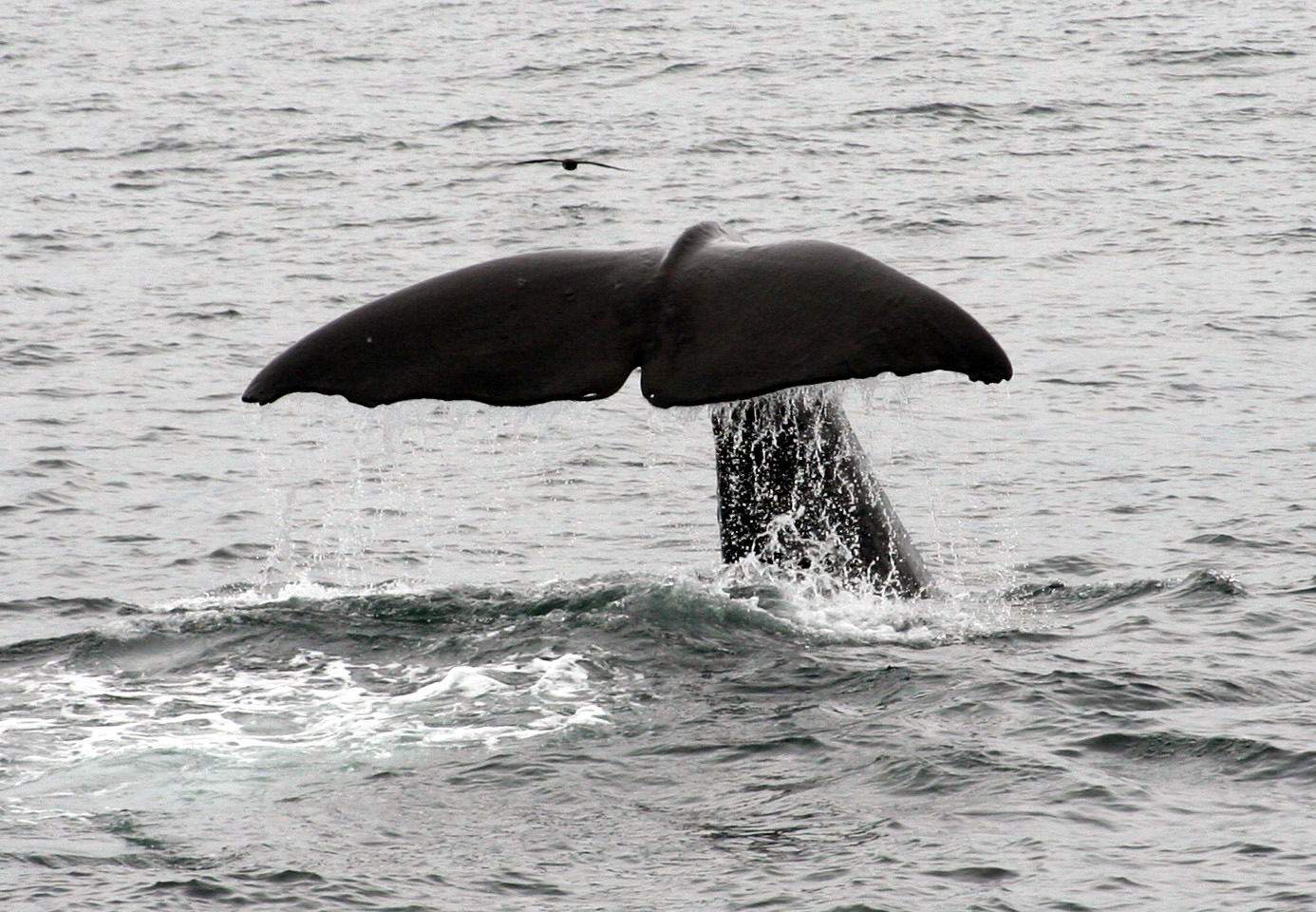 Classic Speram Whale shot. Diving to the depths of the Kaikoura channel to hunt for stuff.